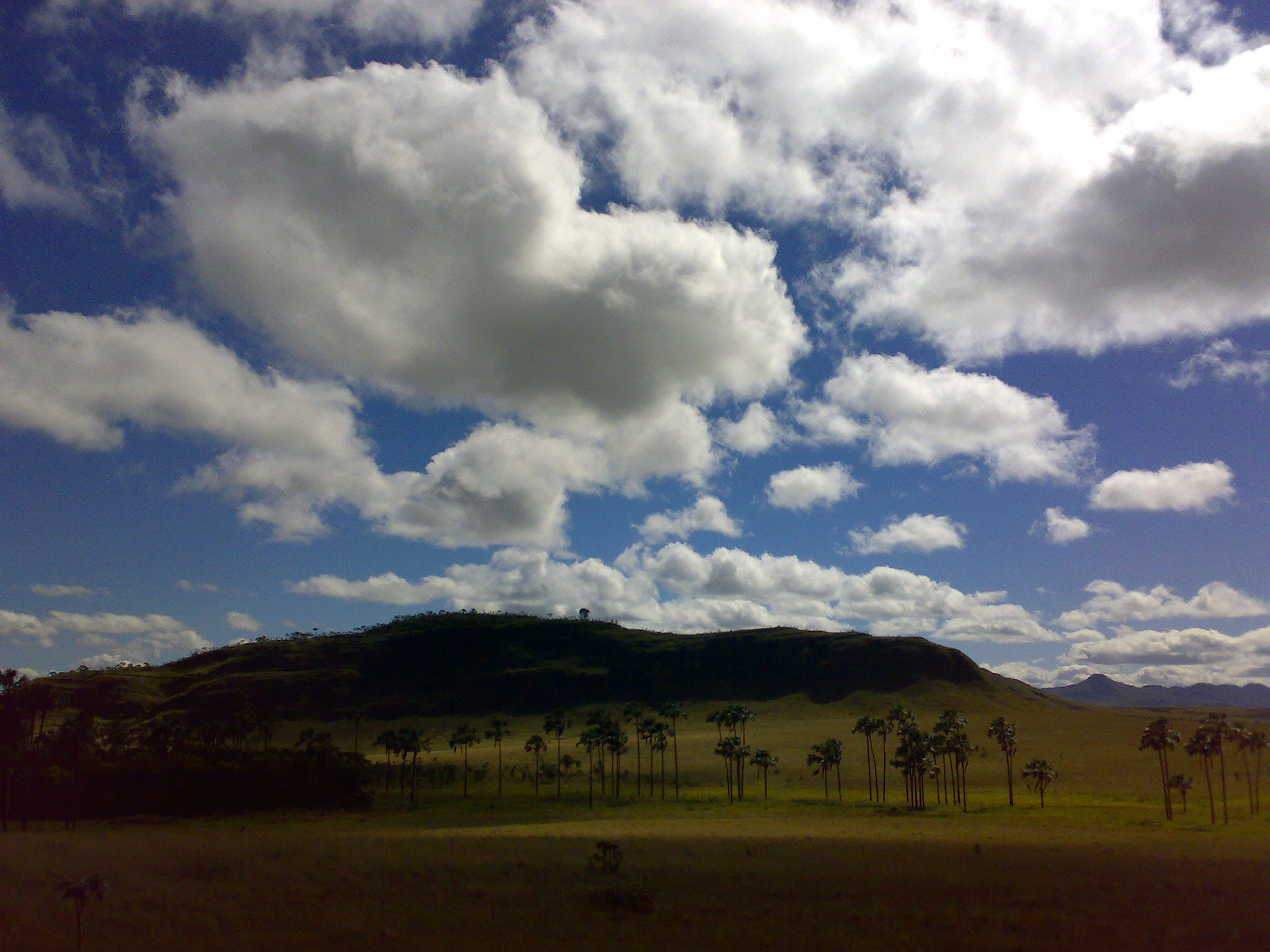 Chapada dos Veadeiros, Maytrea's Garden seen during July.